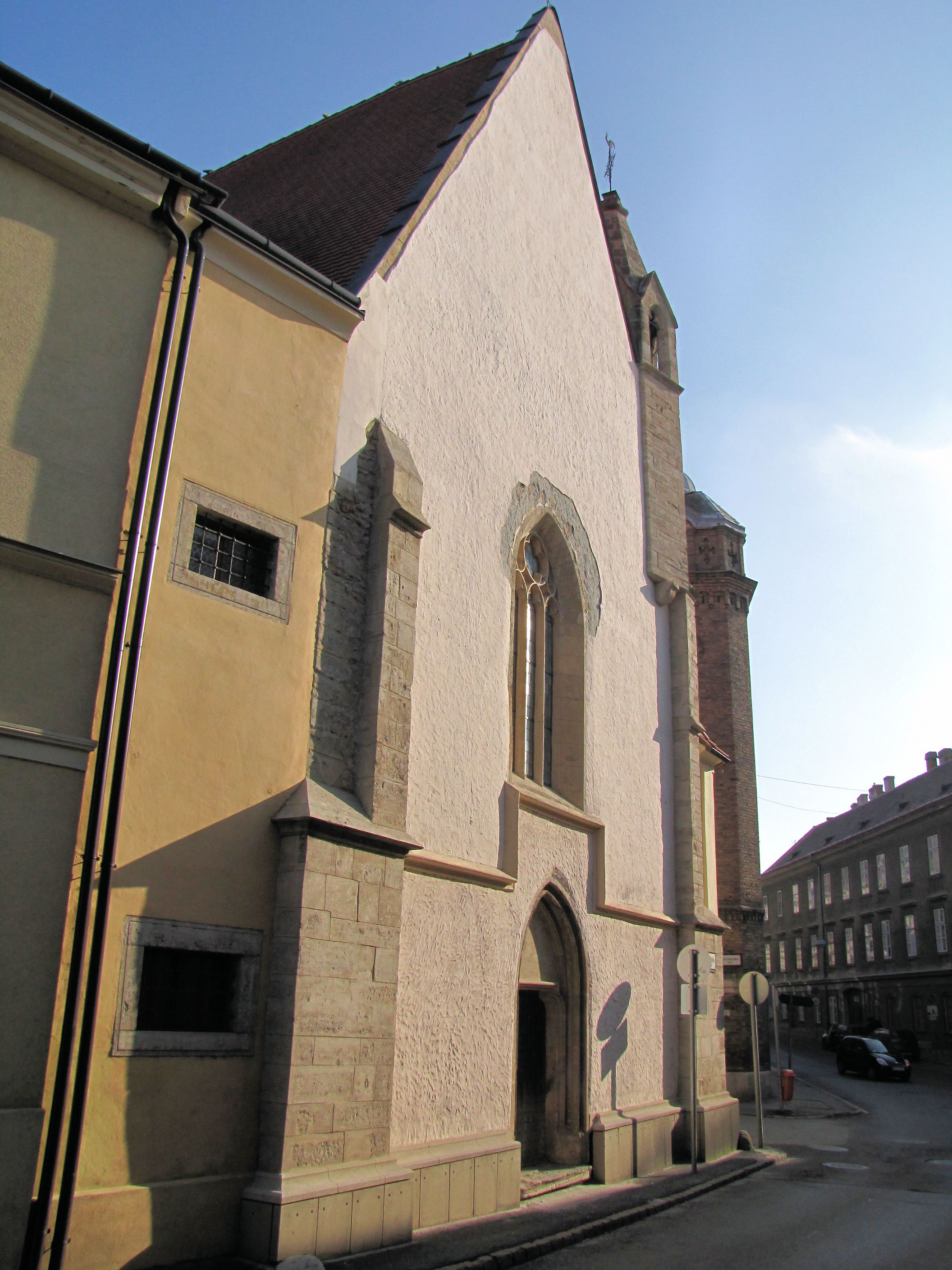 Church of the Holy Spirit, Sopron, Hungary. Originally from the 15th century, the interior is decorated with baroque frescoes by Stephan Dorfmeister.